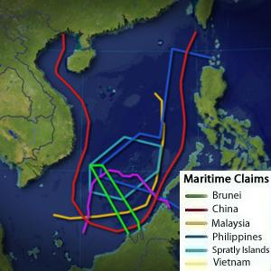 Maritime claims in the South China Sea